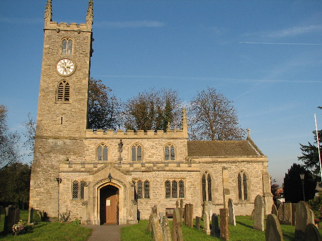 All Saints Church, Elston. 13th century church in the village of Elston